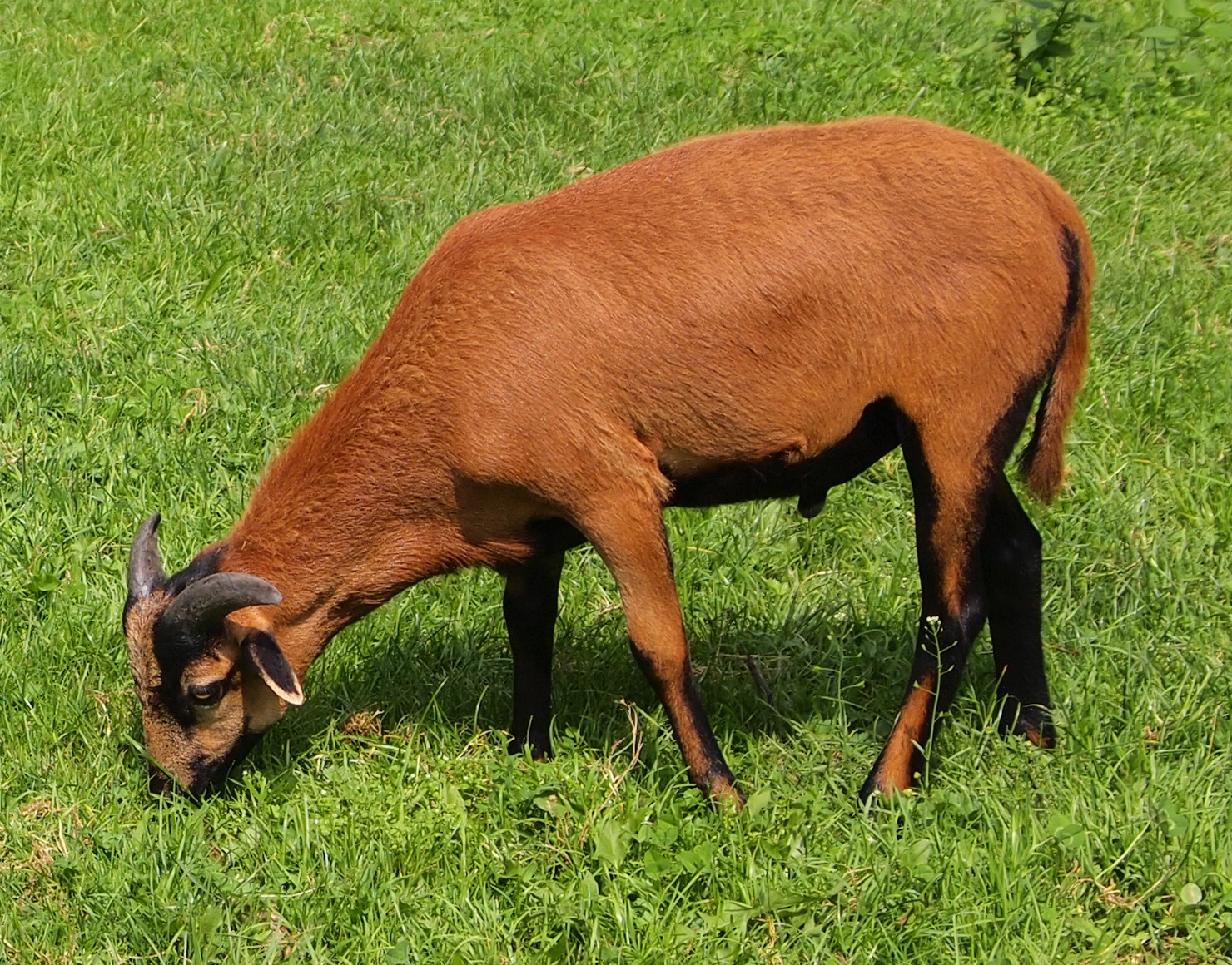 Wildpark Poing. This photograph was taken with an Olympus E-PL1